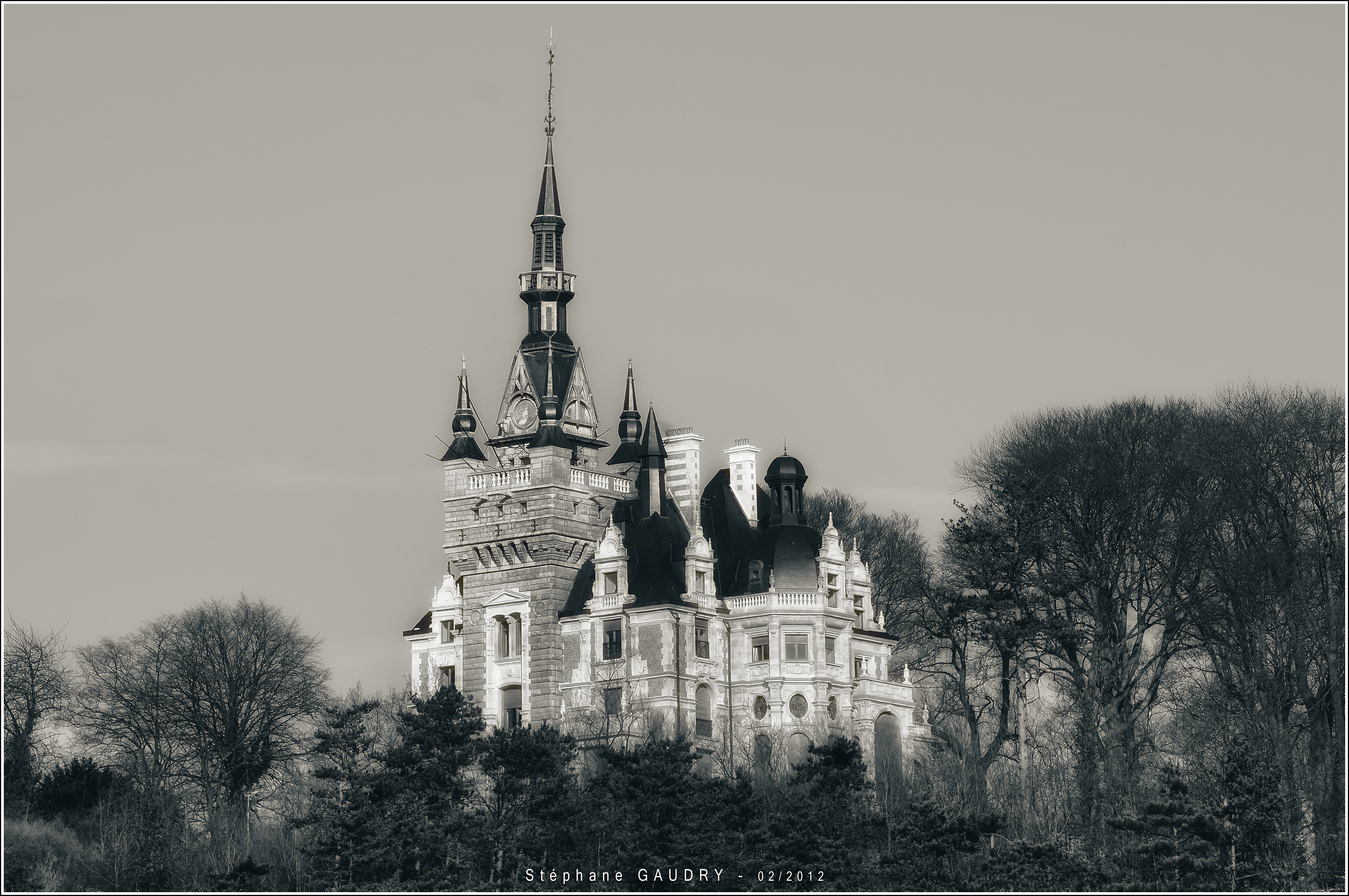 Château le Fy.